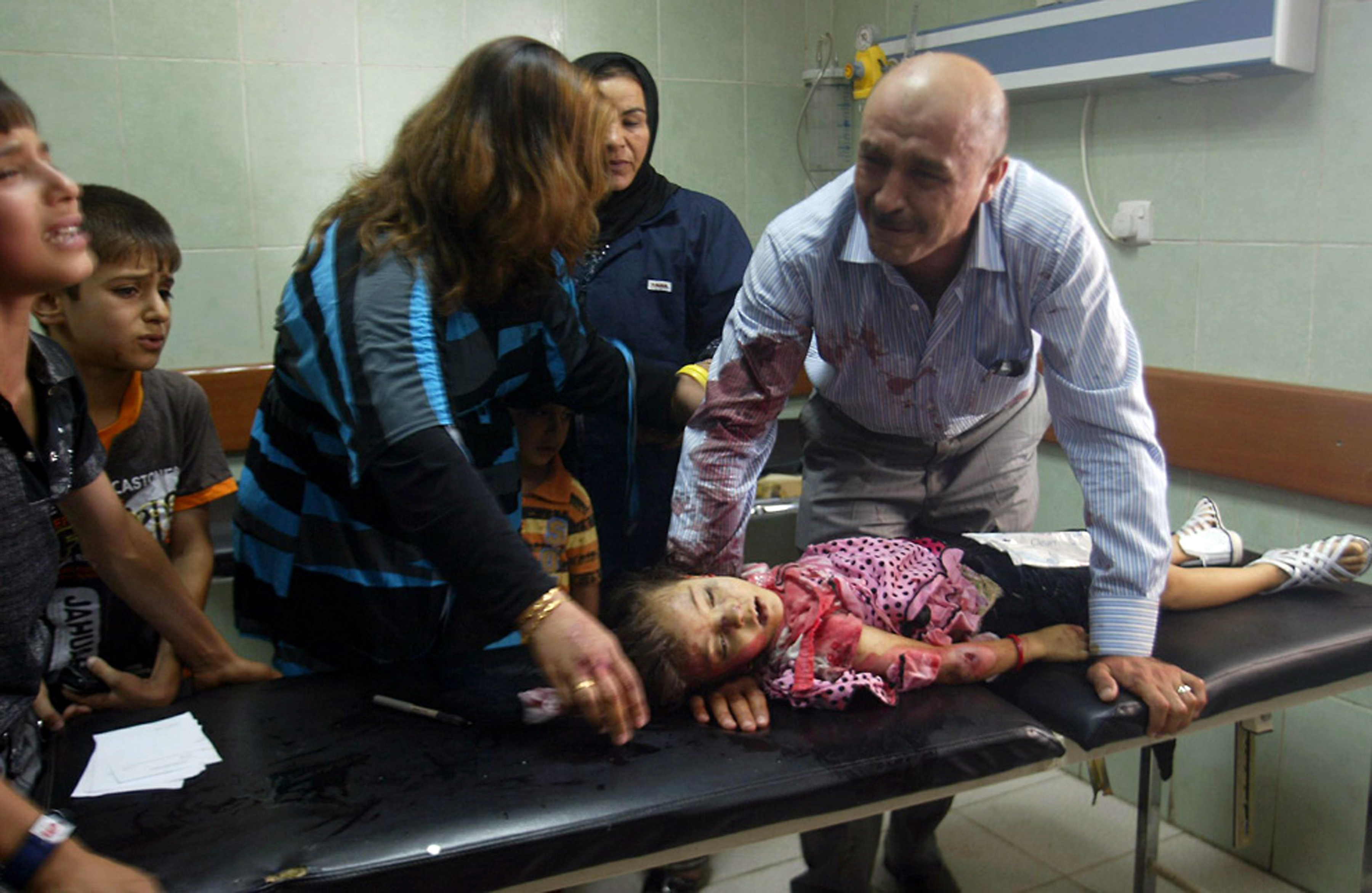 Iraqi man weeps at a hospital in Kirkuk, over the body of his young daughter who was killed in one of two car bomb explosions